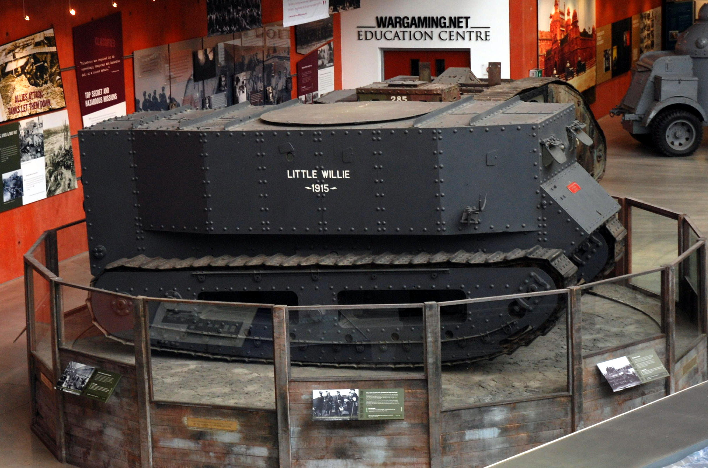 Photo Ref; Nikon-D80-2013-DSC_1287 (Edited)